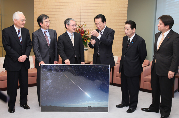 Keiji Tachikawa, President of Japan Aerospace Exploration Agency, Jun'ichirō Kawaguchi, Professor of the Department of Space Systems and Astronautics, Institute of Space and Astronautical Science, and Akio Fujimura, Professor of the Department of Planetary Science, Institute of Space and Astronautical Science, talked with Naoto Kan, Prime Minister, with Yoshito Sengoku, Chief Cabinet Secretary, and Ryūzō Sasaki, Senior Vice-Minister of Education, Culture, Sports, Science and Technology, at the Prime Minister's Official Residence in Chiyoda Ward, Tōkyō Metropolis on December 9, 2010.